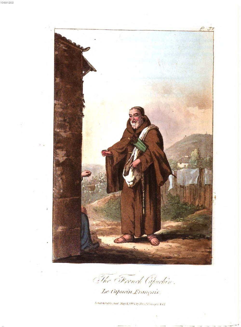 1762108 4 Port. 5 nd 1762108 4 Port. 5 nd